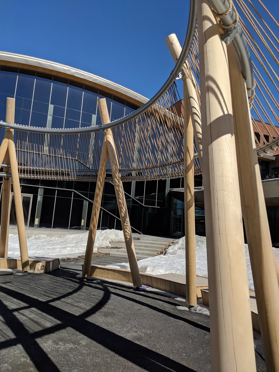 Dare District Indigenous Courtyard